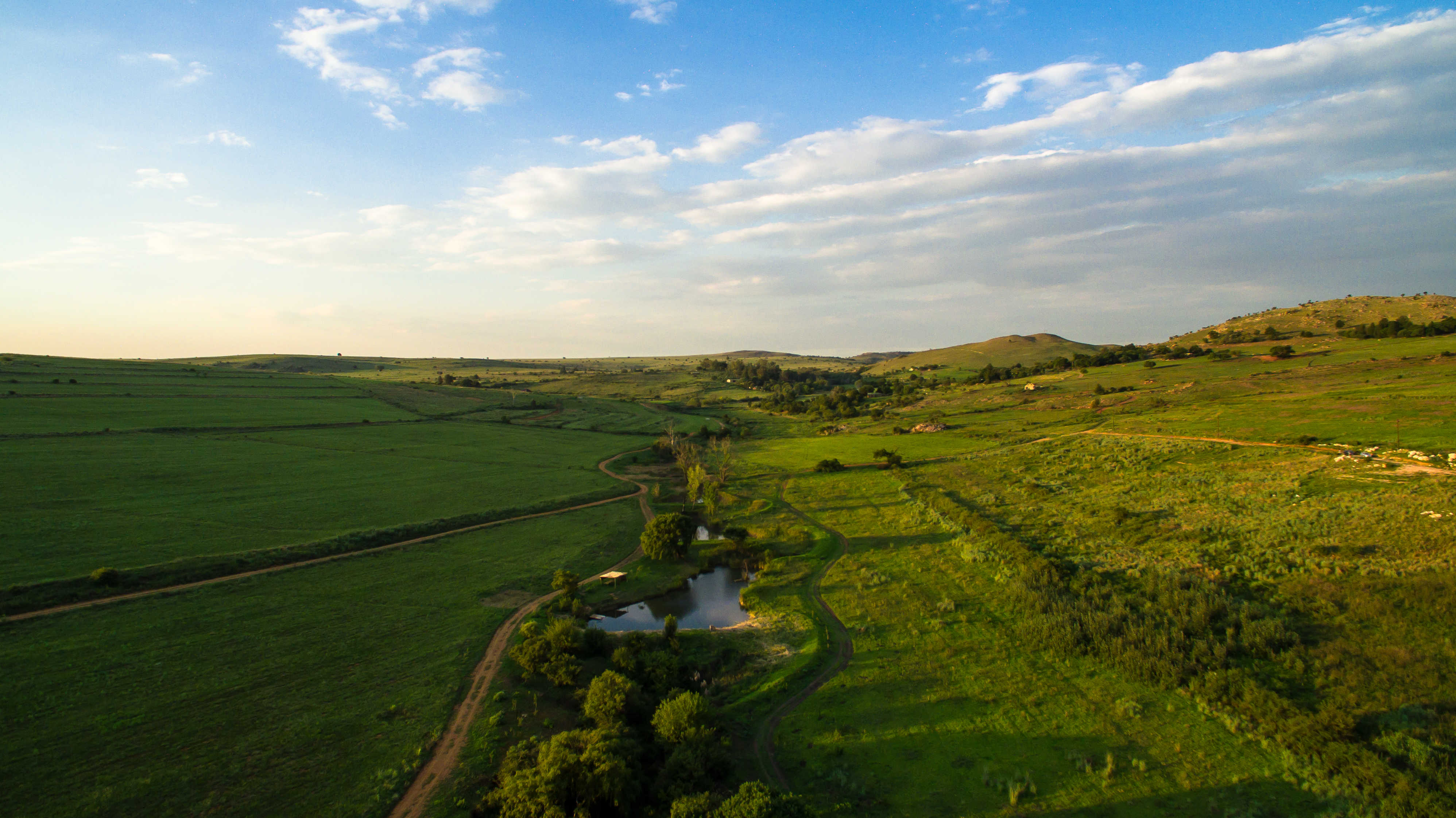 The northern regions of the most populated province in South Africa known as Gauteng has some hidden gems. This small farm is 30 minutes away from the northern suburbs yet feels as if it is hundred of kilometers away from civilisation